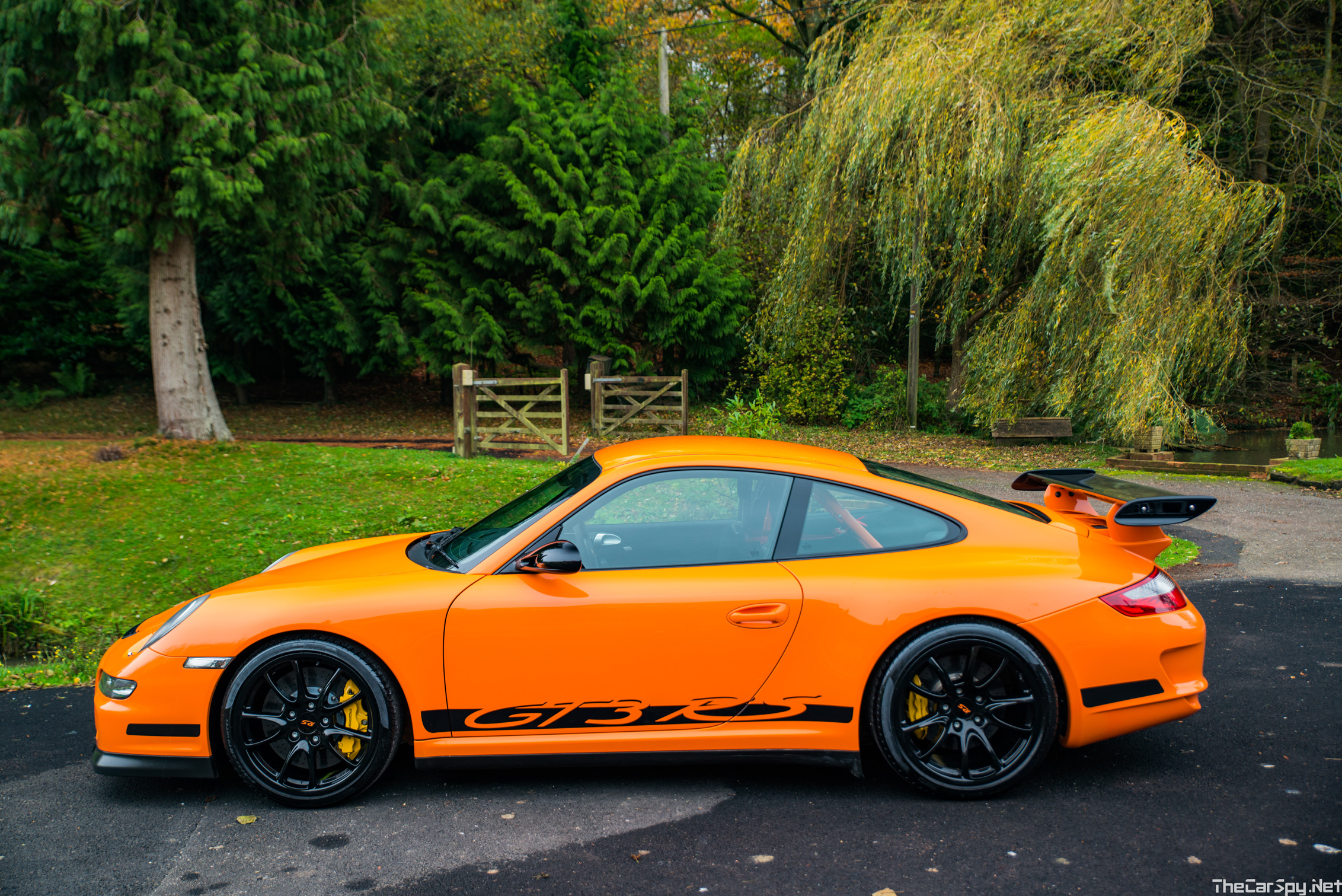 An orange 2006 Porsche 911 (997) GT3 RS 3.6 in a park.